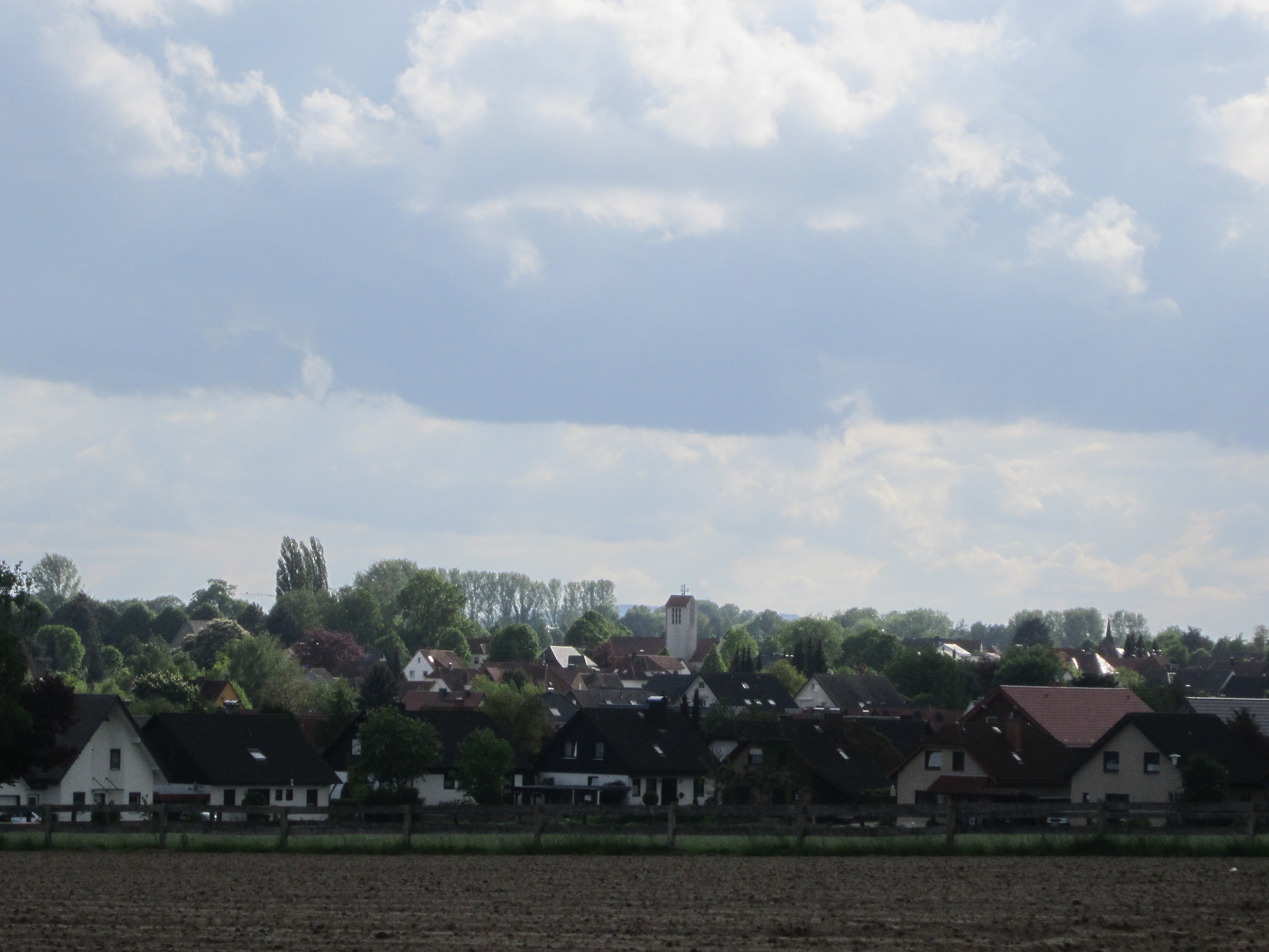 View of Westerenger